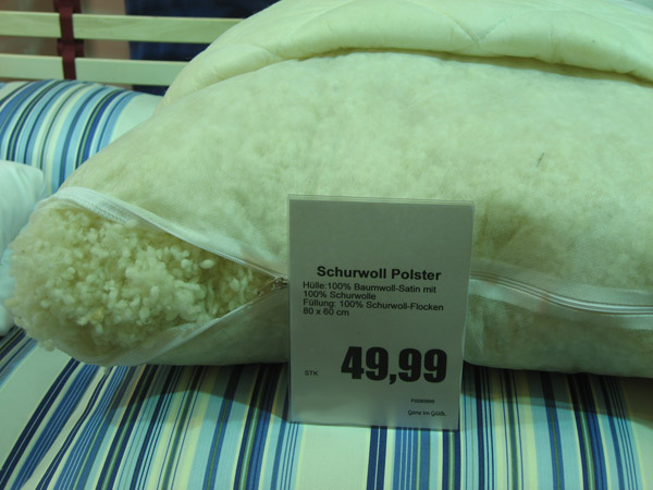 Examples for differing vocabulary in Austrian Standard German Pillows are called "Polster" and not "Kissen".